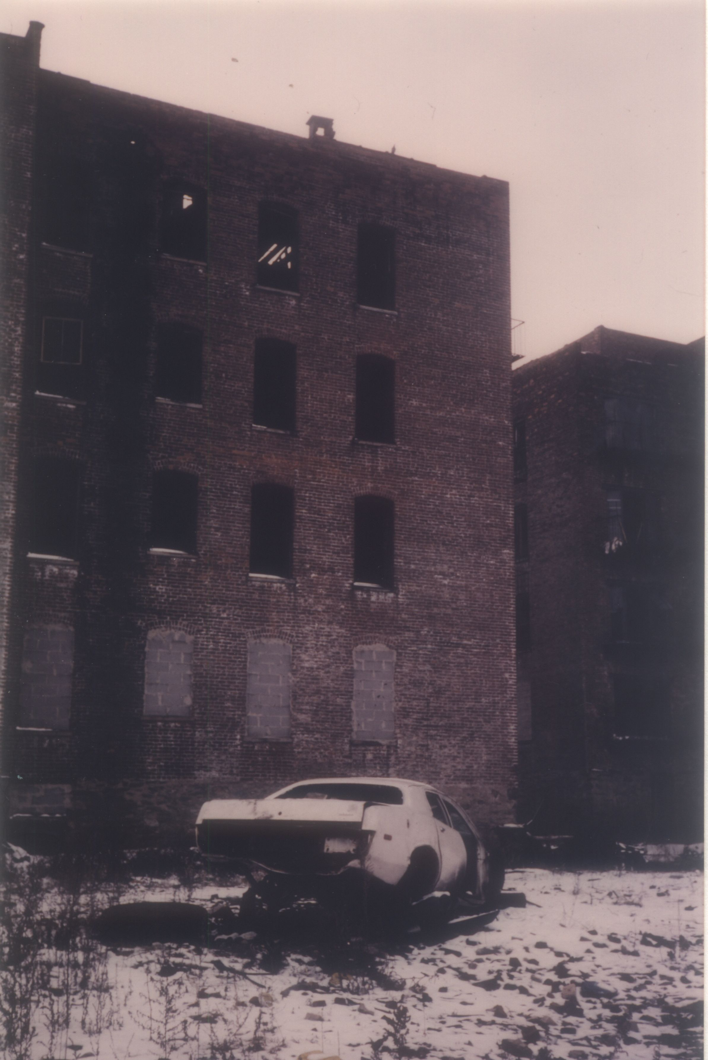 South Bronx, N.Y., 1985